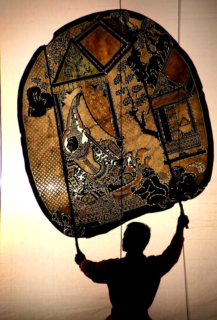 Most of these type puppets are made of cowhide and are several hundred years old. This puppet is one of many used in an hour-long telling of a story from the Ramayana. The puppets are kept and used by various Buddhist temples in Thailand.